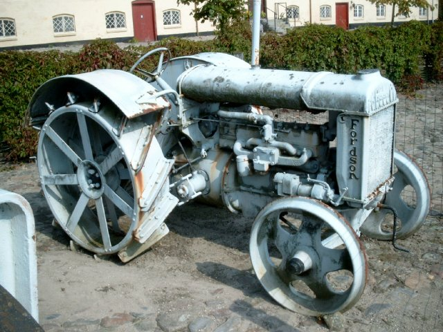 Fordson tractor model F